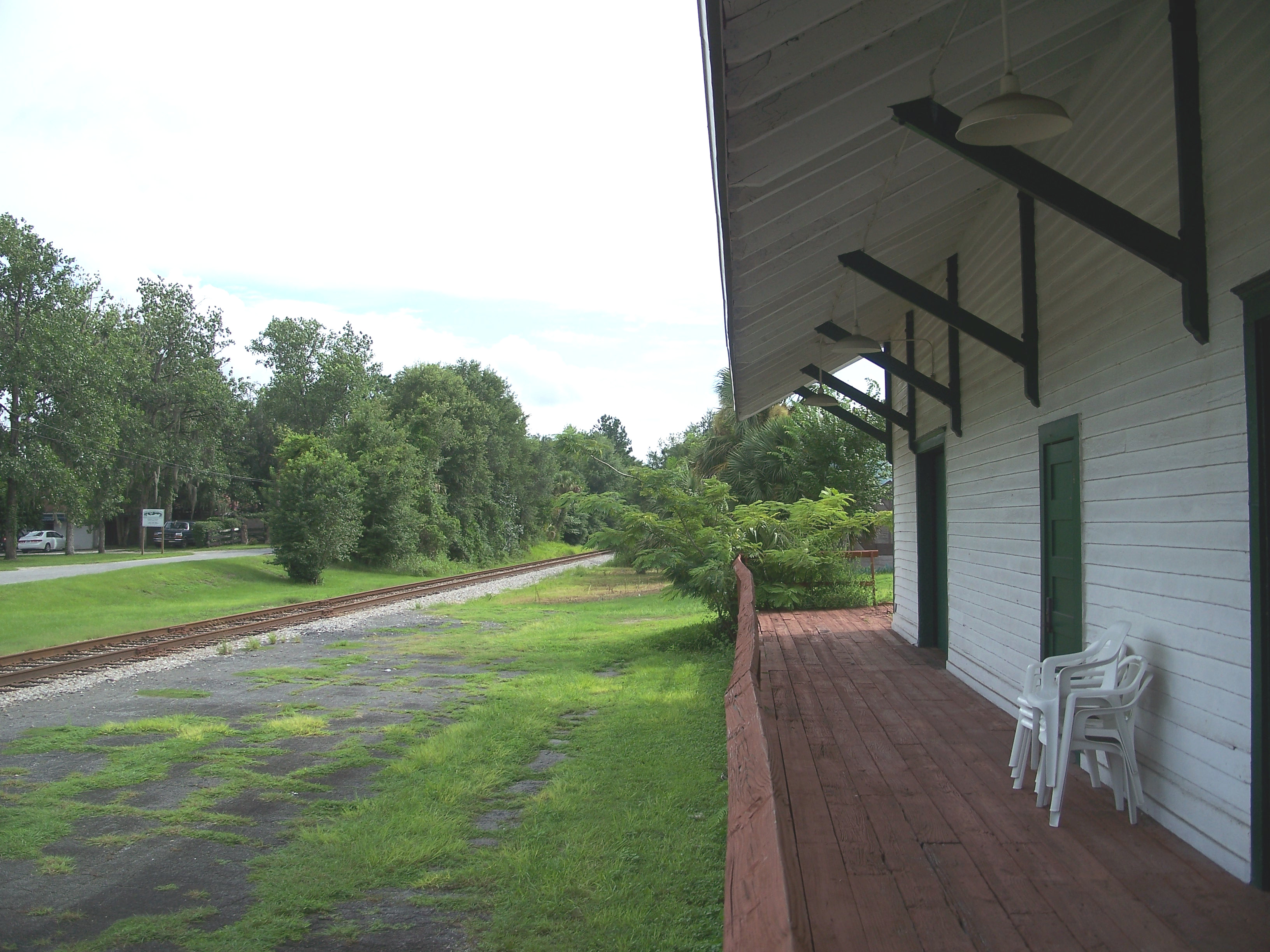 Dunnellon, Florida: Old Atlantic Coast Line Train Station